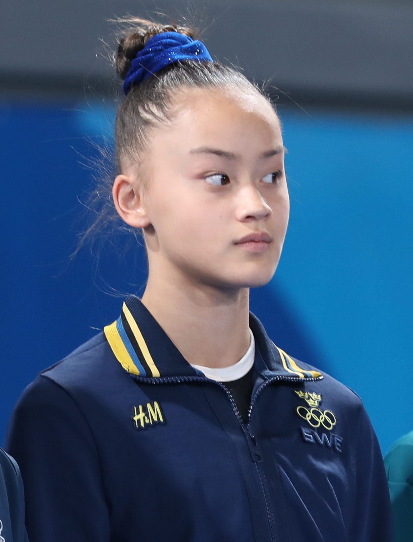 Gymnastics mixed multi-discipline team competition: Victory ceremony